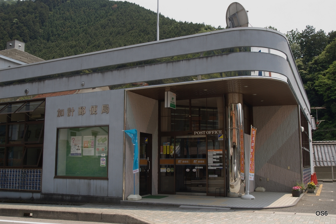 加計郵便局 Post office